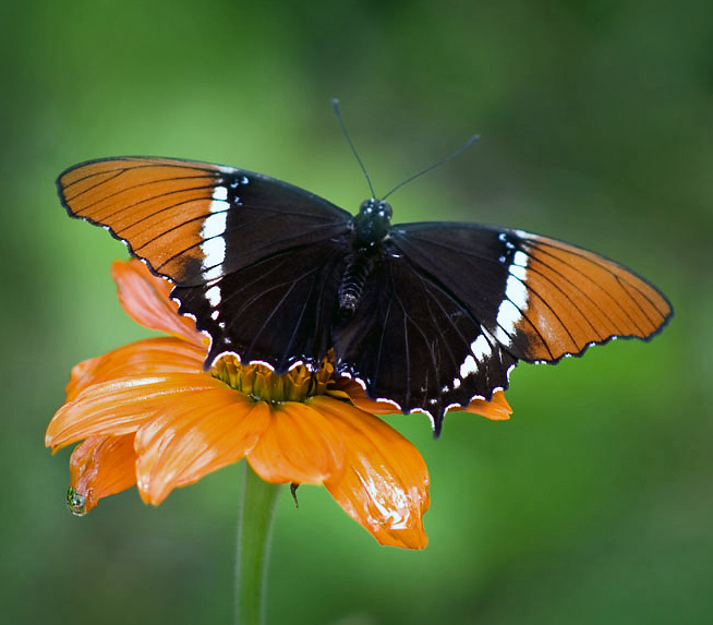 Siproeta epaphus, Butterfly World (Florida)